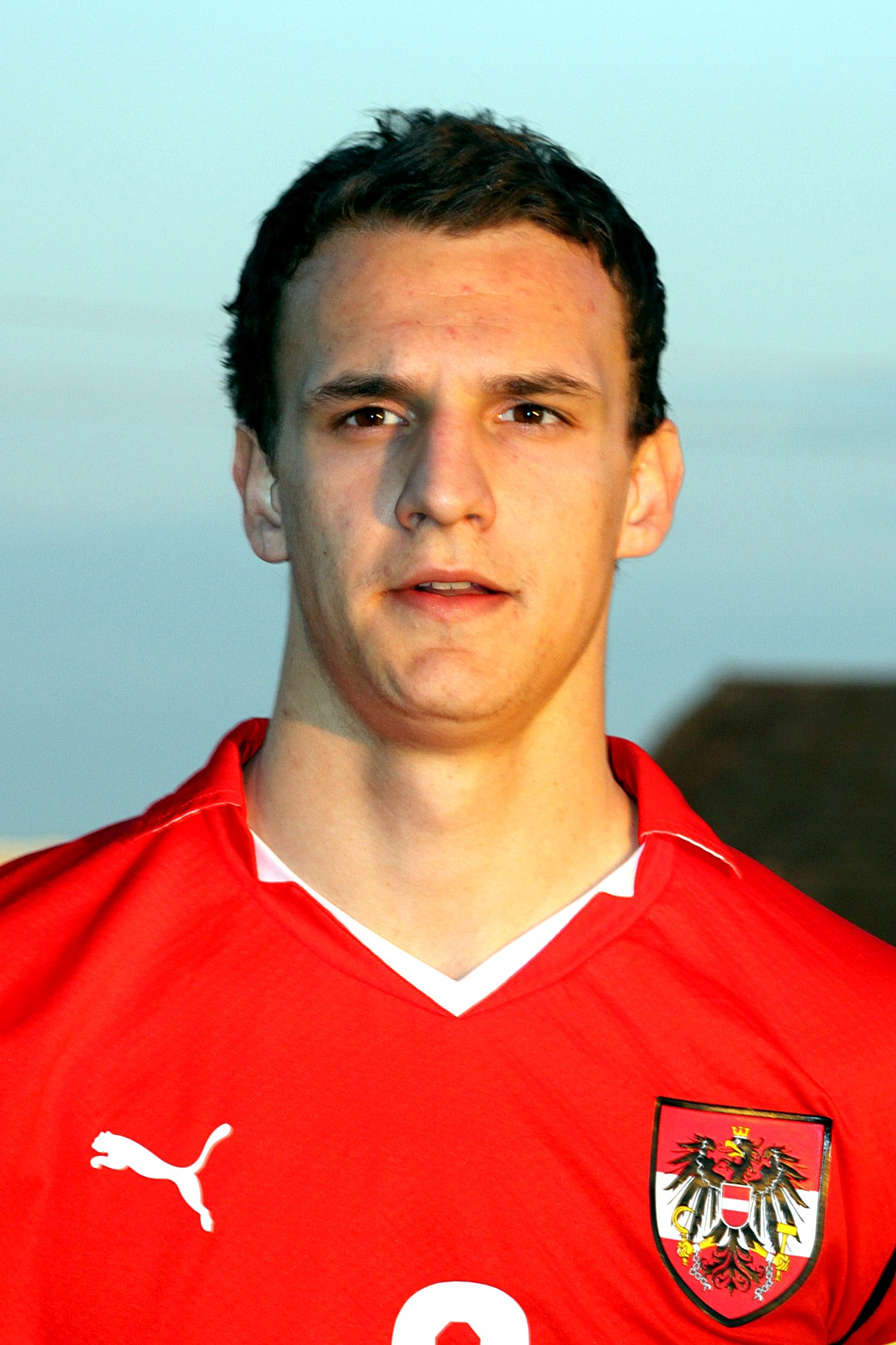 Florian Neuhold (SK Sturm Graz) - in the U-19-friendly match Austria (class 1993) vs. Slowakia (class 1993). Object location47° 44′ 53.87″ N, 16° 28′ 58.97″ E